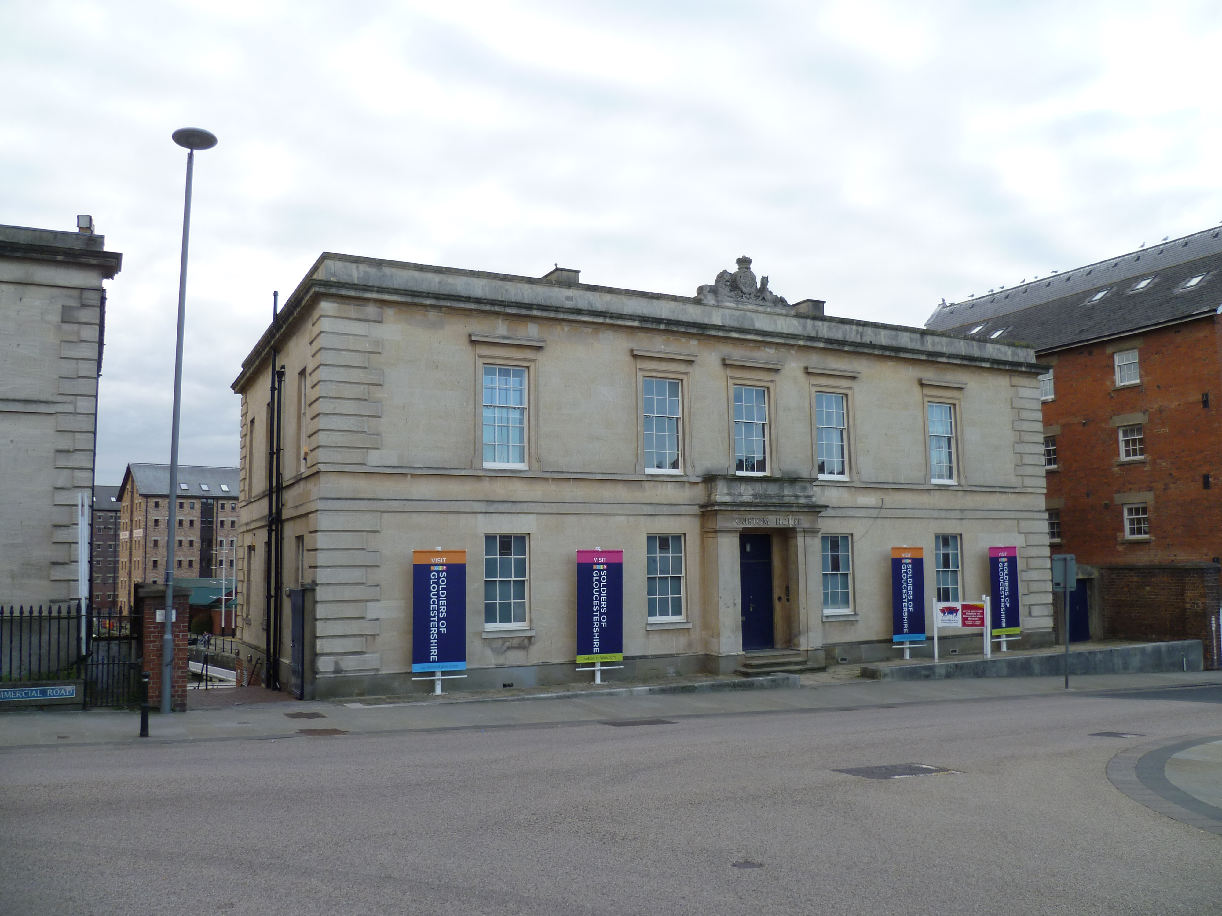 Gloucestershire Regiment Museum